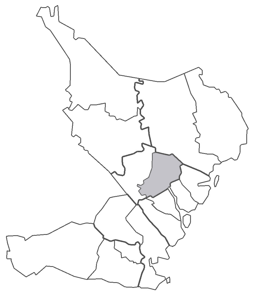 Map describing the location of Boteå Court District in Västernorrland County, Sweden.